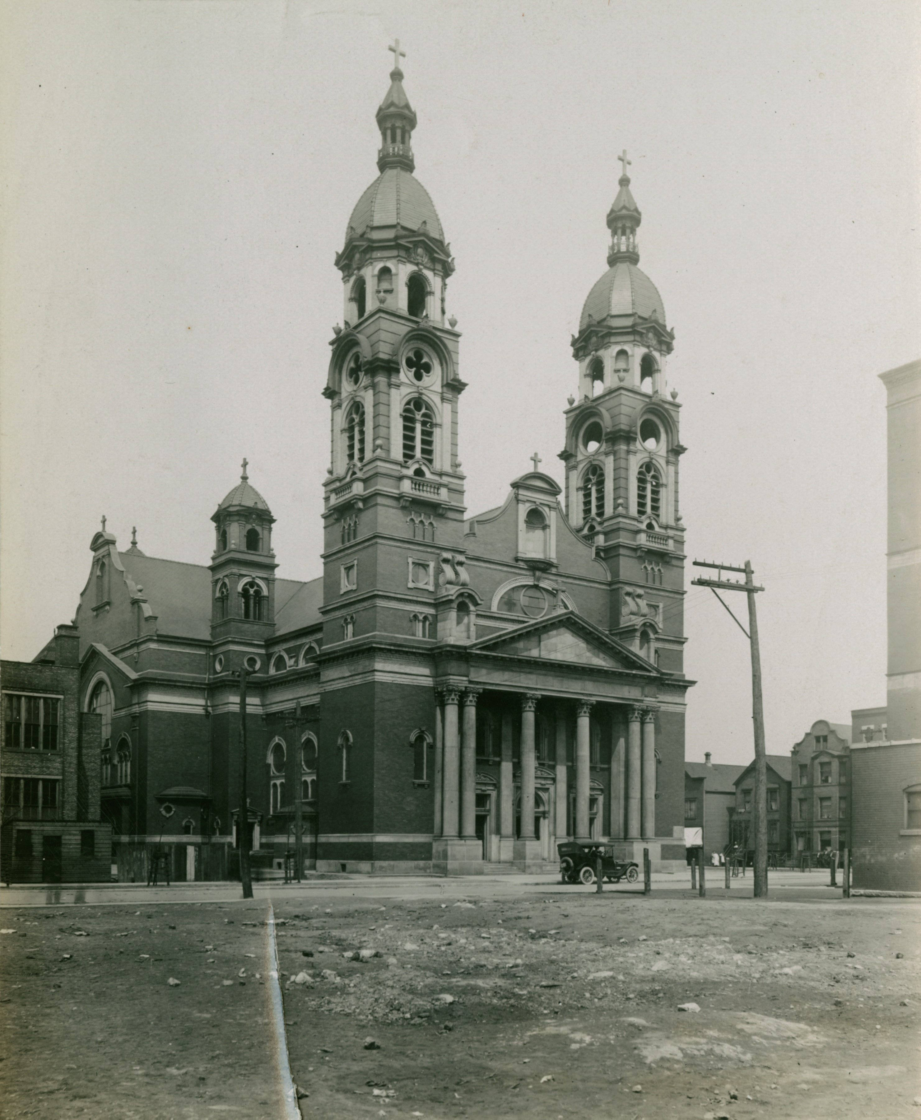 " Holy Cross - (Lithuanian) Hermitage Avenue and 46th"--Photograph verso.